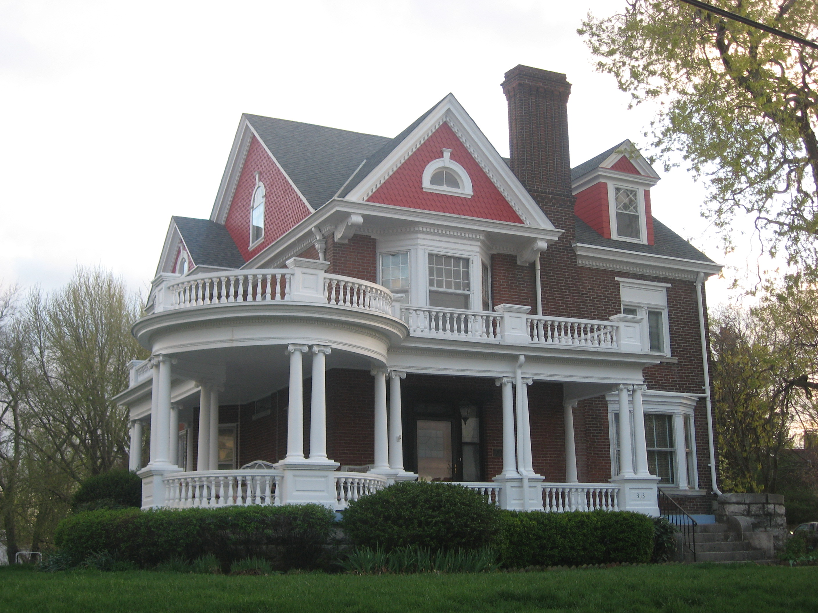 Front of the William Henry and Lilla Luce Harrison House, located at 313 Themis Street in Cape Girardeau, Missouri, United States. Built in 1897, it is listed on the National Register of Historic Places, and it is part of a Register-listed historic district, the Courthouse-Seminary Neighborhood Historic District.